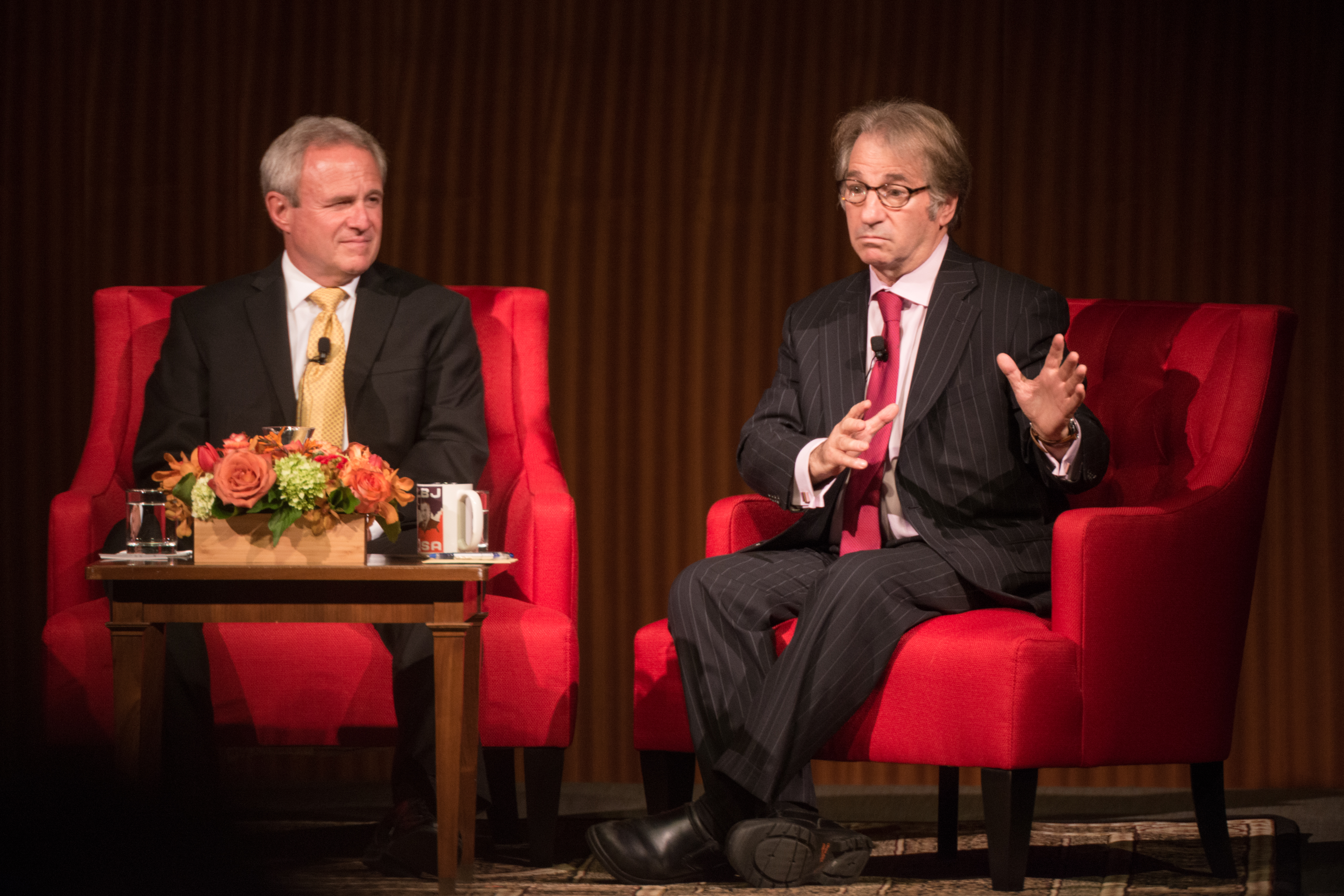 Michael Morton, author of "Getting Life," and Barry Scheck, co-founder and co-director of the Innocence Project, share Morton's remarkable story of tragedy, injustice, and forgiveness with Friends members at the LBJ Presidential Library on September 30, 2014. Morton was exonerated on October 4, 2011 after spending nearly 25 years in a Williamson County prison after being wrongly convicted of the murder of his wife. Photo by Lauren Gerson.